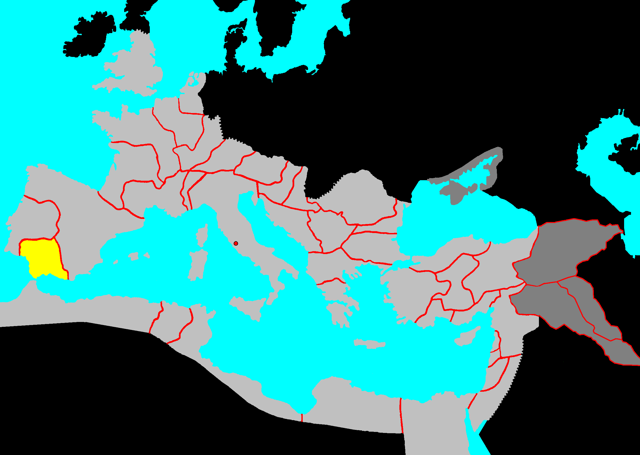 Description: provinces of the Roman Empire (Imperium Romanum) Source: own work Date: December 2005 Author: --Immanuel Giel 11:19, 13 December 2005 (UTC) Other versions: none